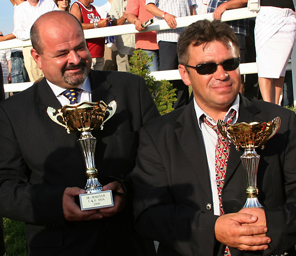 Zoltan Mikoczy Overdose's owner and Sandor Ribarszky Overdose's trainer.